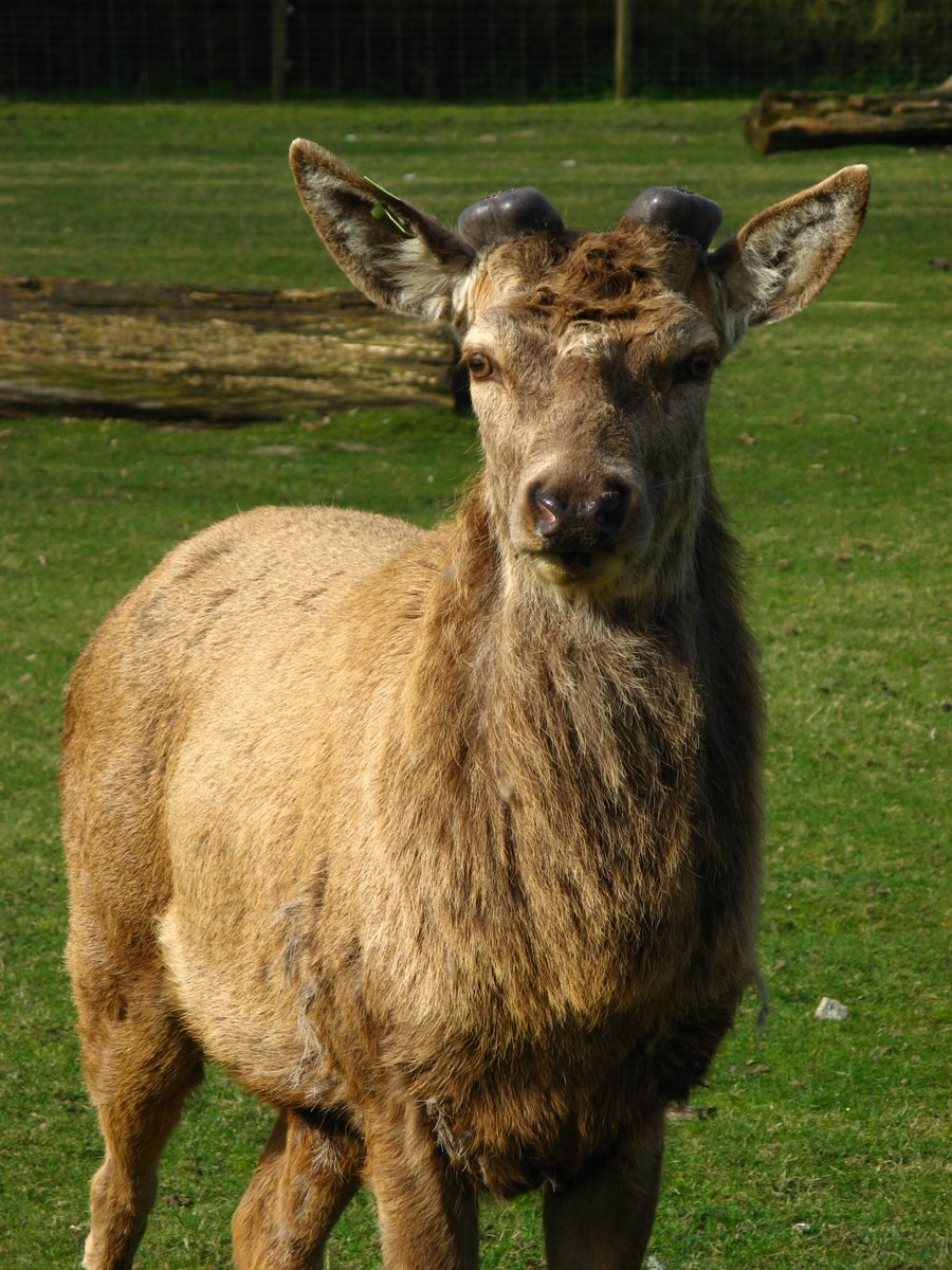 Antlers at the start of the season, cervus elaphus, deinze, belgium